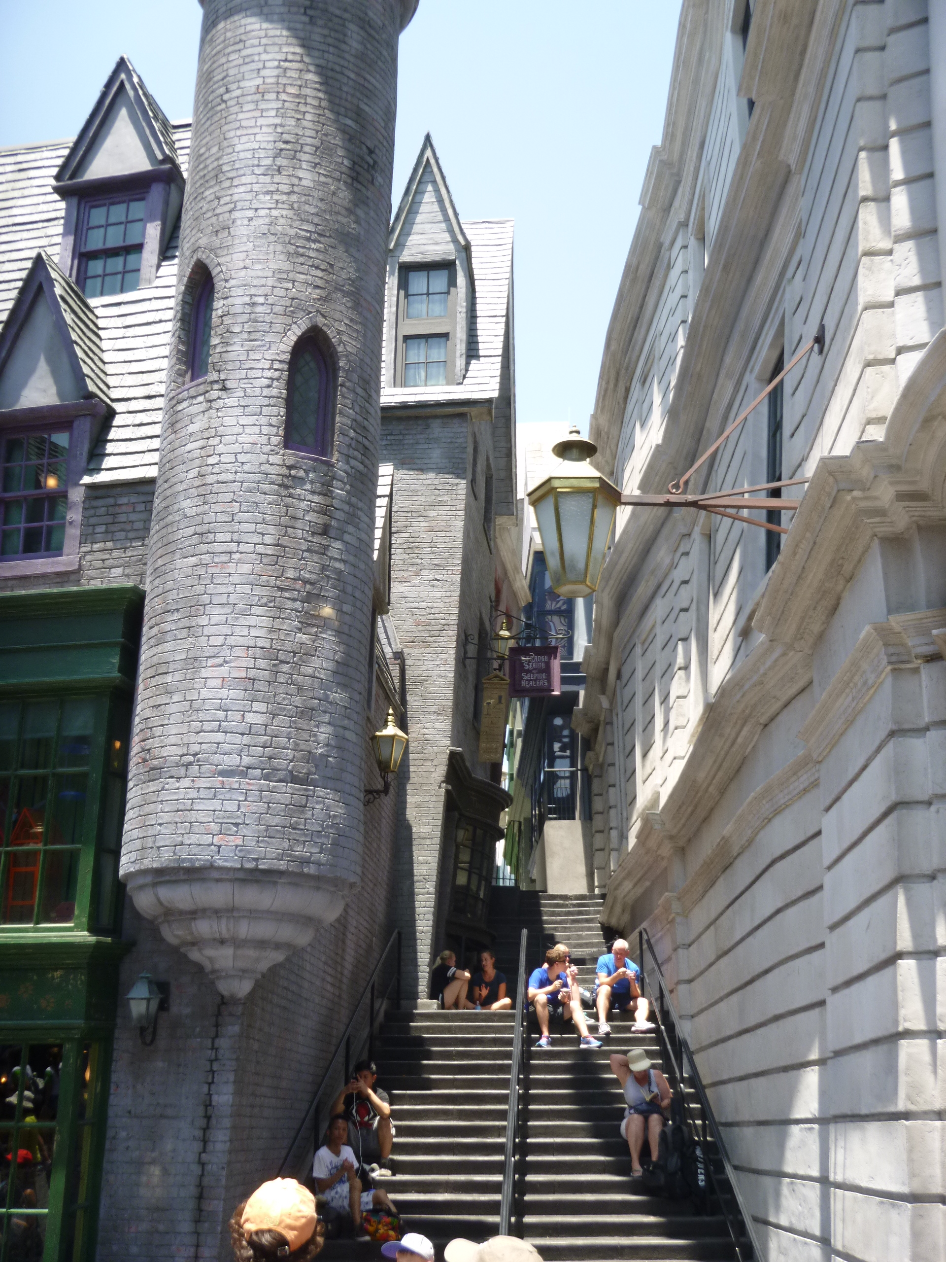 Stairs at Diagon Alley